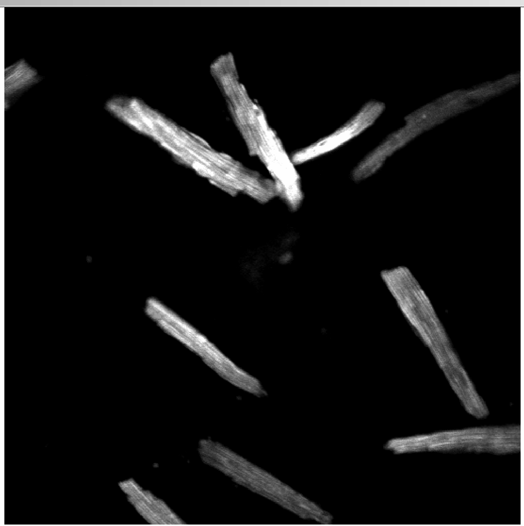 Confocal Image of isolated adult cardiac myocyte